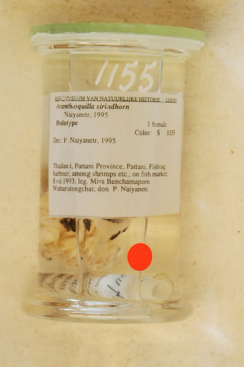 Naturalis Biodiversity Center specimen RMNH.CRUS.S.1155 Holotype of Acanthosquilla sirindhorn Naiyanetr, 1995. (Now a synonym of Acanthosquilla derijardi Manning, 1970) "Thailand, Pattani Province, Pattani, Fishing harbour; among shrimps etc., on fish market; 8.vii.1993; leg. Miss Benchamaporn Wattanatongchai; don. P. Naiyanetr."